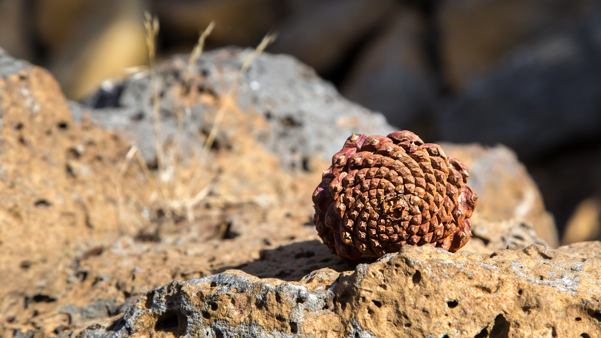 Pinecone on rock.jpg